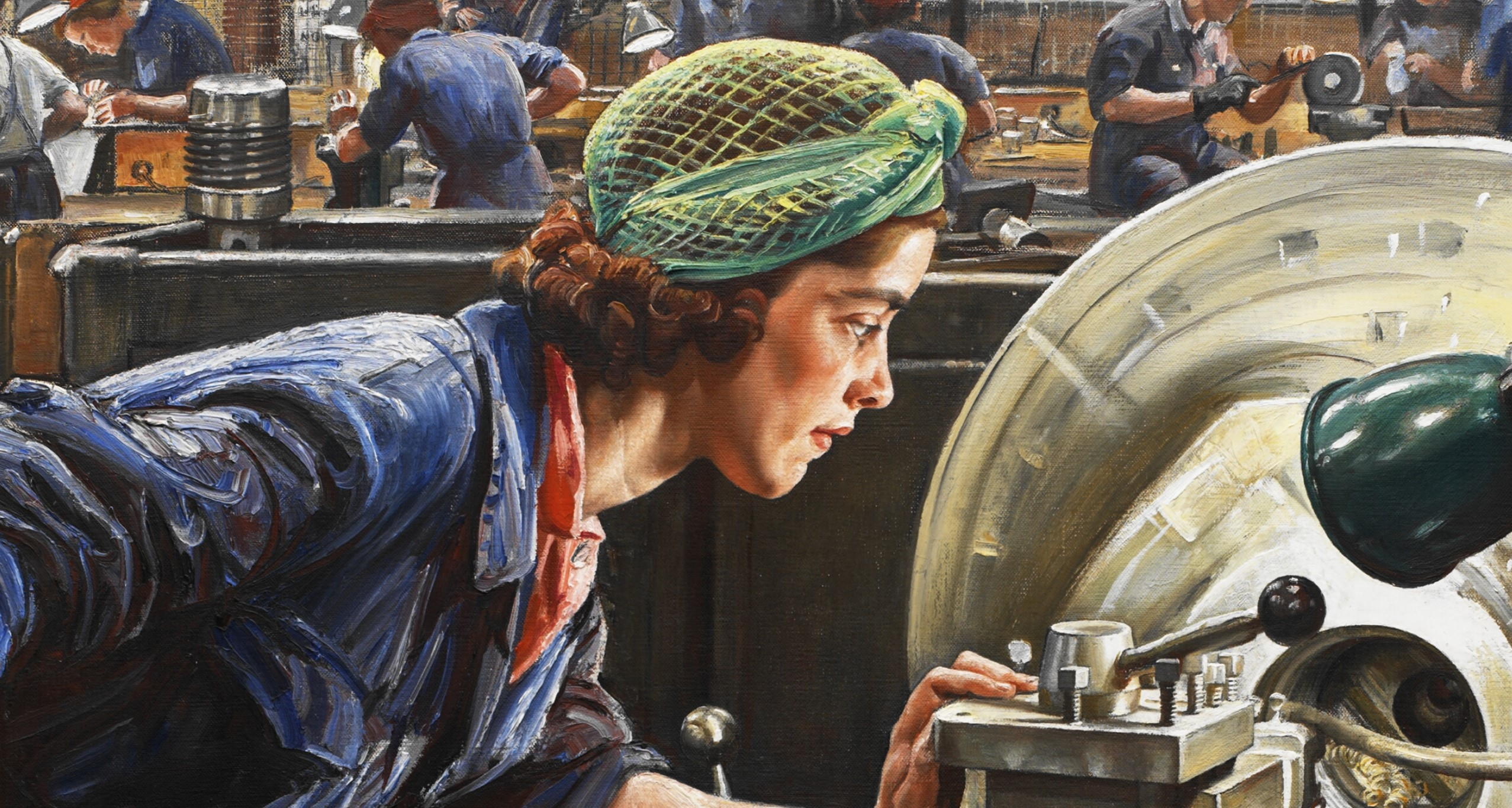 Detail from "Ruby Loftus screwing a Breech-ring"